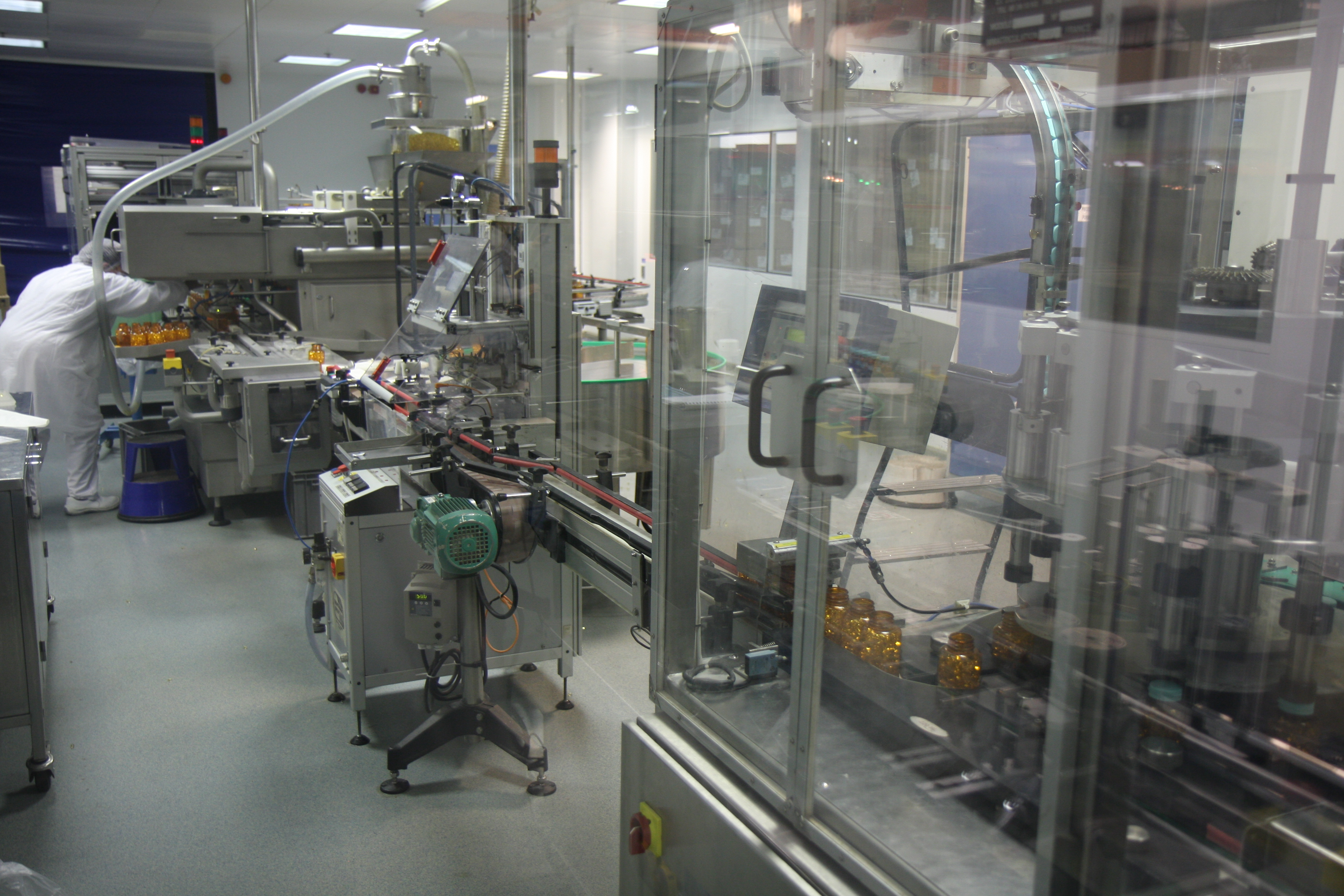 Arkopharma Pharmaceutical Laboratories - Manufacturing area